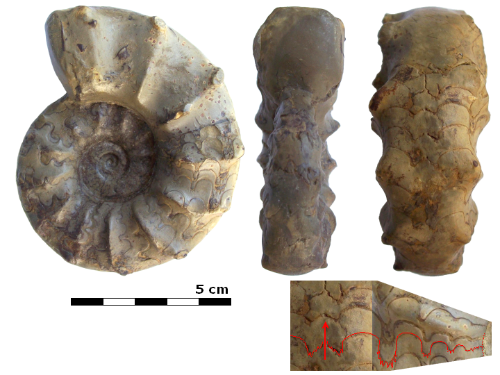 Ceratites evolutus Philippi (Mid Trias - Anisian) - from Germany (Bad Neustadt/Saale). from left: lateral view; ventral (adoral) view; ventral (aboral) view. Lower picture: photo-composition of the lateral and ventral suture segments and line-drawing (in red) of the sutural pattern.